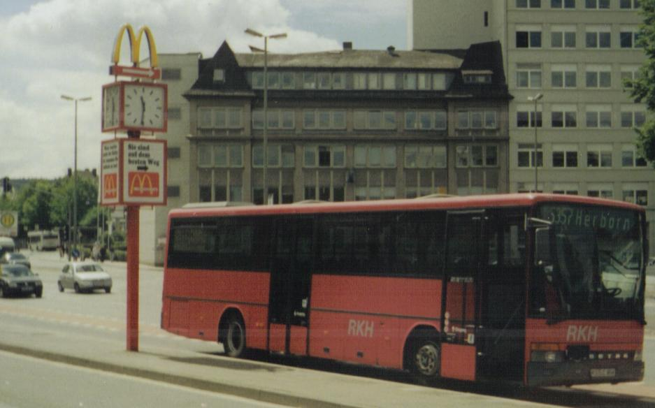 Bus line 5357 in direction Herborn